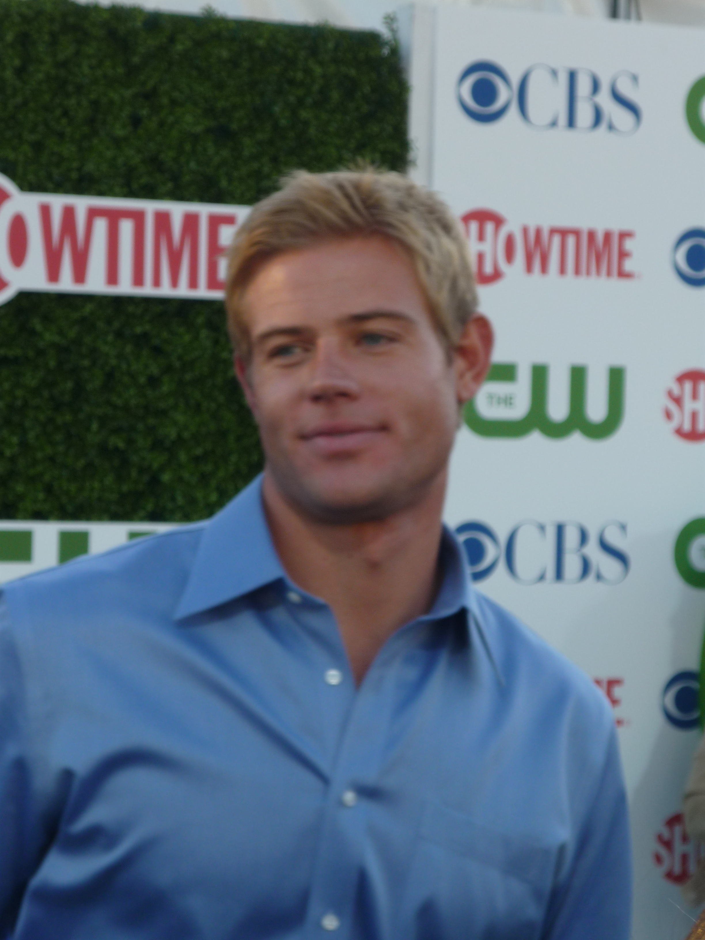 Actor Trevor Donovan Deadline article picture Trevor Donovan Hollywood Portrait 12 This file may be updated to reflect new information. If you wish to use a specific version of the file without new updates being mirrored, please upload the required version as a separate file.